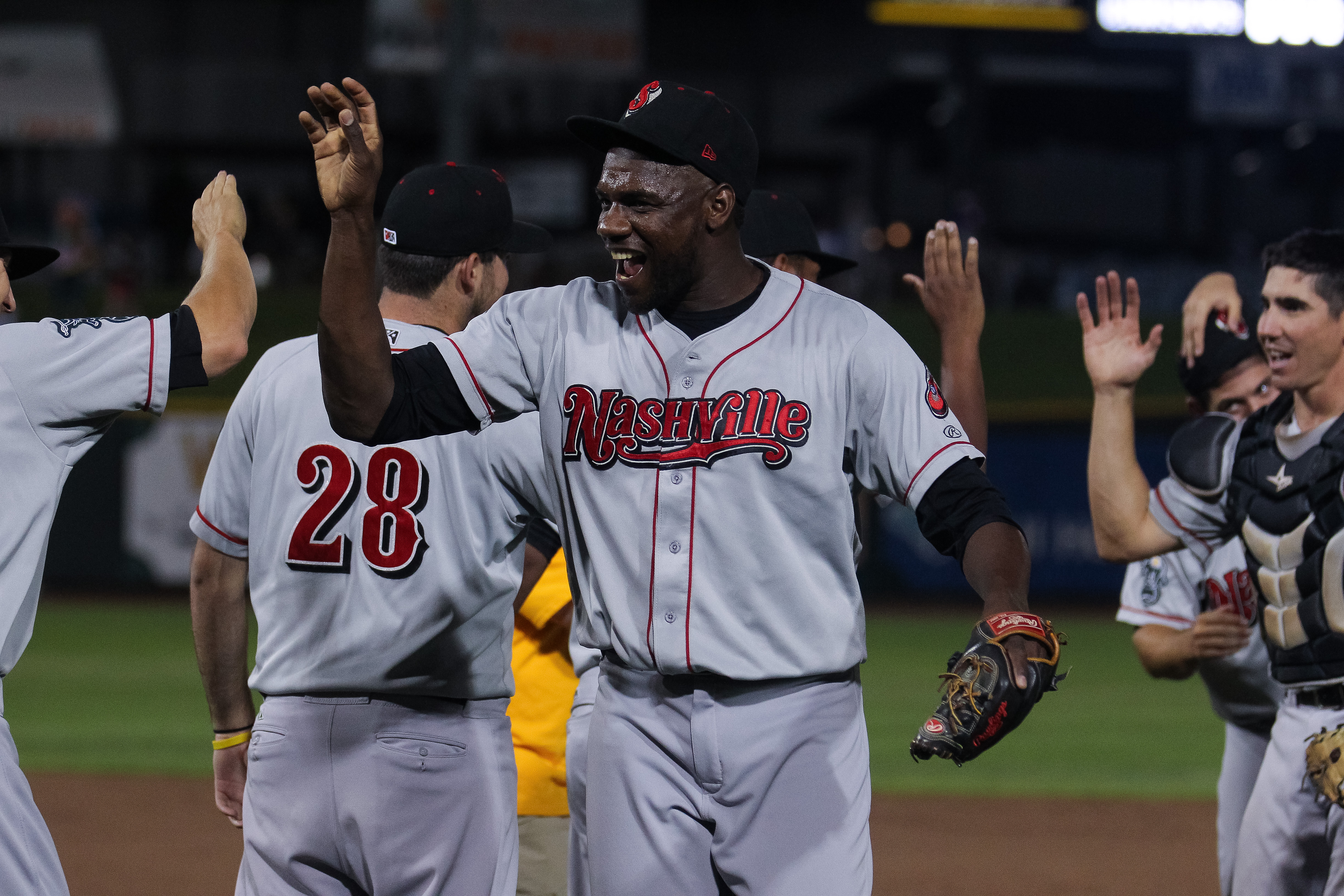 Nashville Sounds players celebrating after a combined no-hitter against the Omaha Storm Chasers on June 7, 2017. From left to right: unknown, Corey Walter (No. 28), pitcher Simon Castro, Matt McBride (catcher). Photo by Minda Haas Kuhlmann. USAGE INSTRUCTIONS: You are welcome to share or publish to your own site or social media account, but you MUST credit me, Minda Haas Kuhlmann, or by my Twitter handle (@minda33) or Instagram (minda.haas).